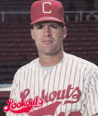 Professional baseball manager Tom Runnells